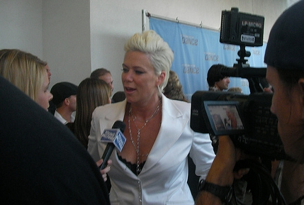 Mia Michaels doing interviews backstage after the "So You Think You Can Dance" season four finale.